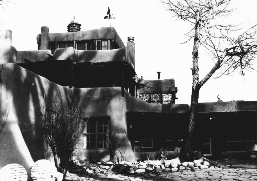 Mabel Dodge Luhan House — Taos, New Mexico. View from entry courtyard. Upper floor windows (center-right) with painted glass by D.H. Lawrence.